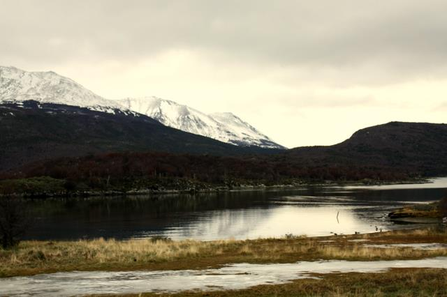 Laguna Negra - Tierra del Fuego, Argentina.